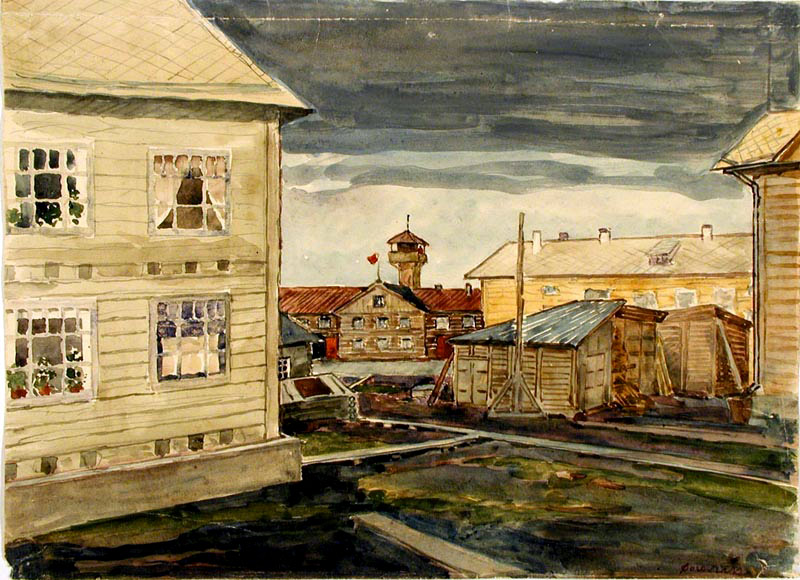 Labor Camp Petrosavodsk, 1933-34, watercolor on paper, State Ethnographic Museum of Karelia, Petrozavodsk